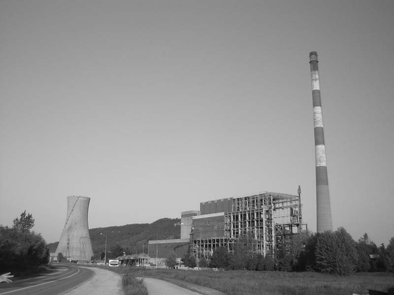 Ugljevik Power Plant, Termoelektrana Ugljevik, whith 310 m tall chimney Licensing Category:Images of Republika Srpska